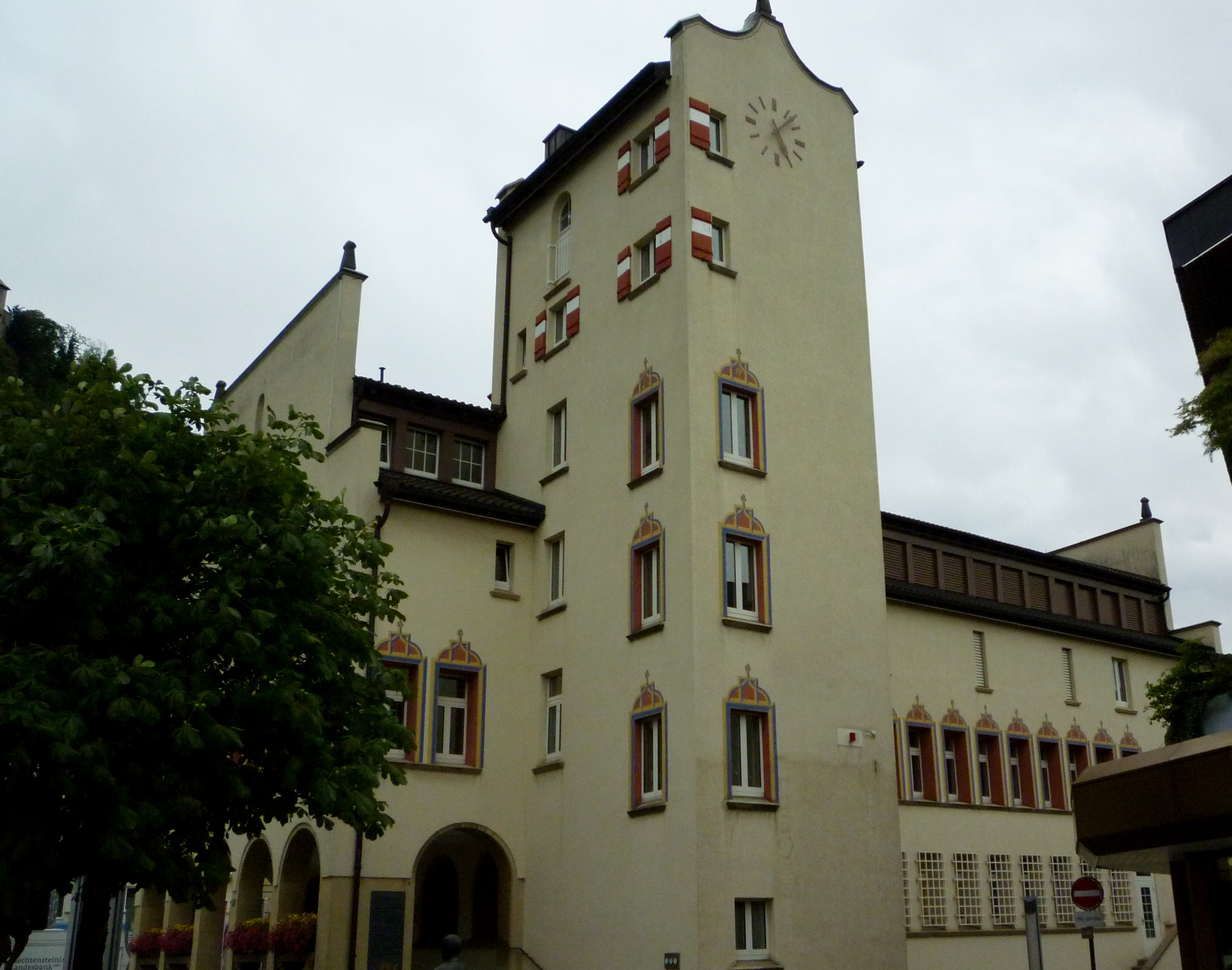 Townhall of Vaduz, the capital of Liechtenstein